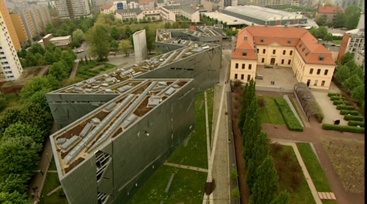 Jewish Museum,Berlin, vtacia perspektiva, foto